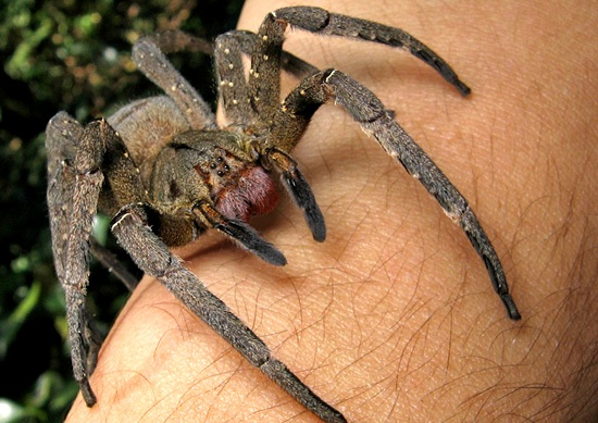 Brazilian Wandering spider. Phoneutria nigriventer en . WARNING: This and other species of the genus Phoneutria are extremely venomous and should generally not be handled by humans.[1]